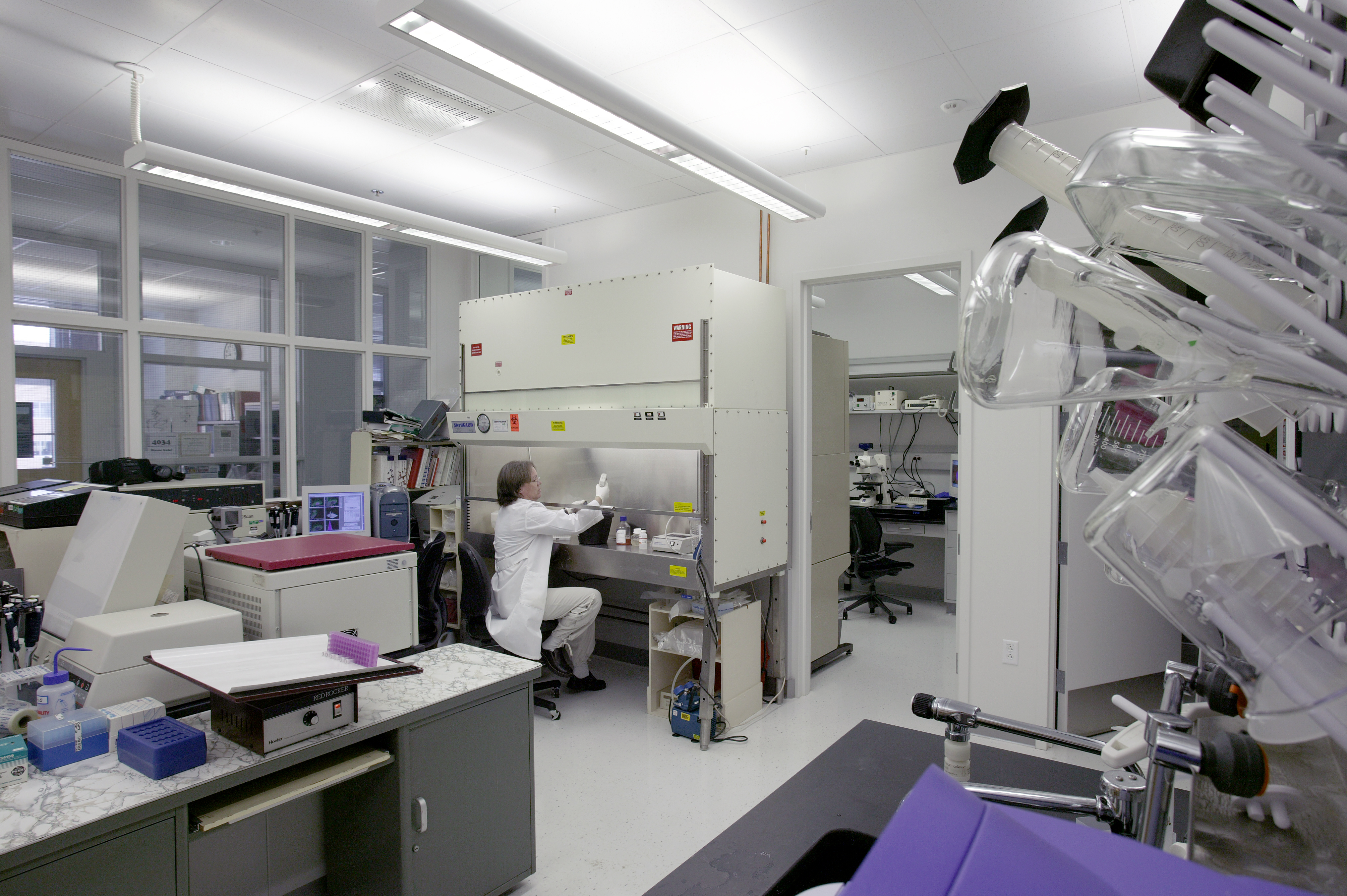 FDA Life Sciences Laboratory I in Building 64, which houses the Center for Drug Evaluation and Research and the Center for Devices and Radiological Health. The FDA campus is located at 10903 New Hampshire Ave., Silver Spring, MD 20993.